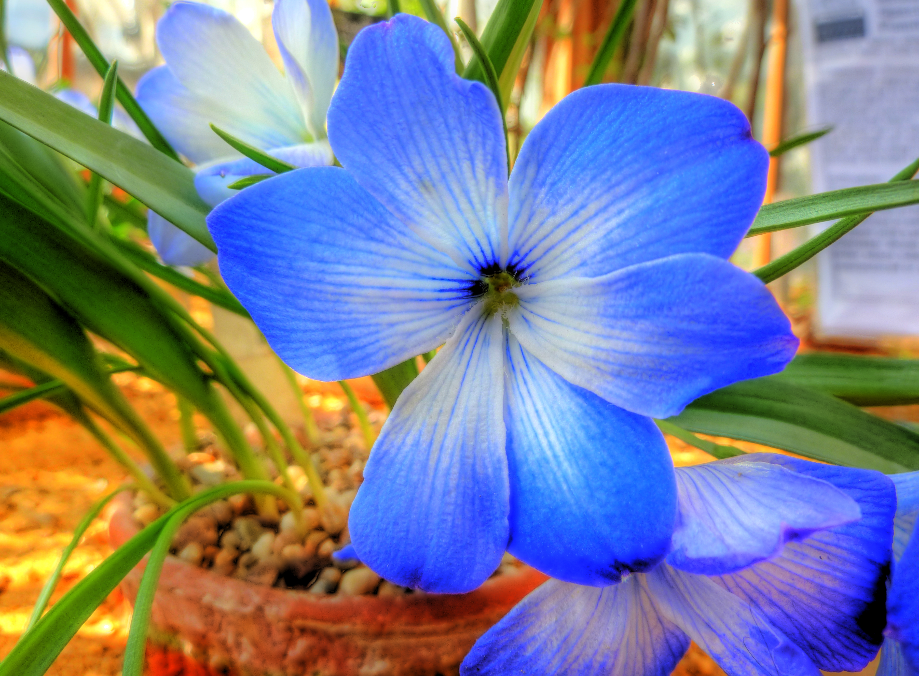 Taken in the Cambridge University Botanic Garden.